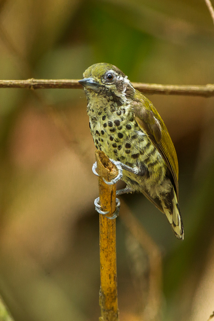 Speckled piculet (Picumnus innominatus)